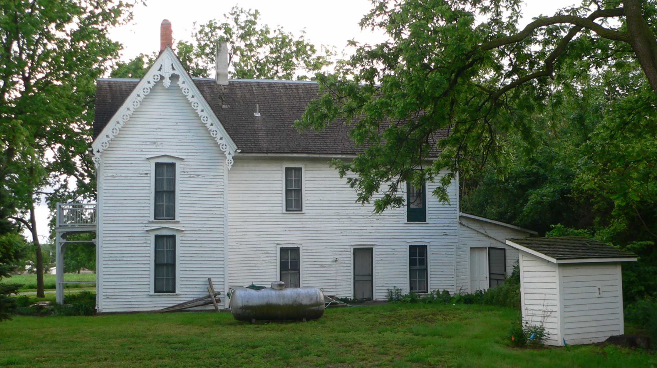 Jesse C. Bickle homestead, located on West 13th Street in Crete, Nebraska, and on the banks of the Big Blue River: Bickle house, seen from the northeast.